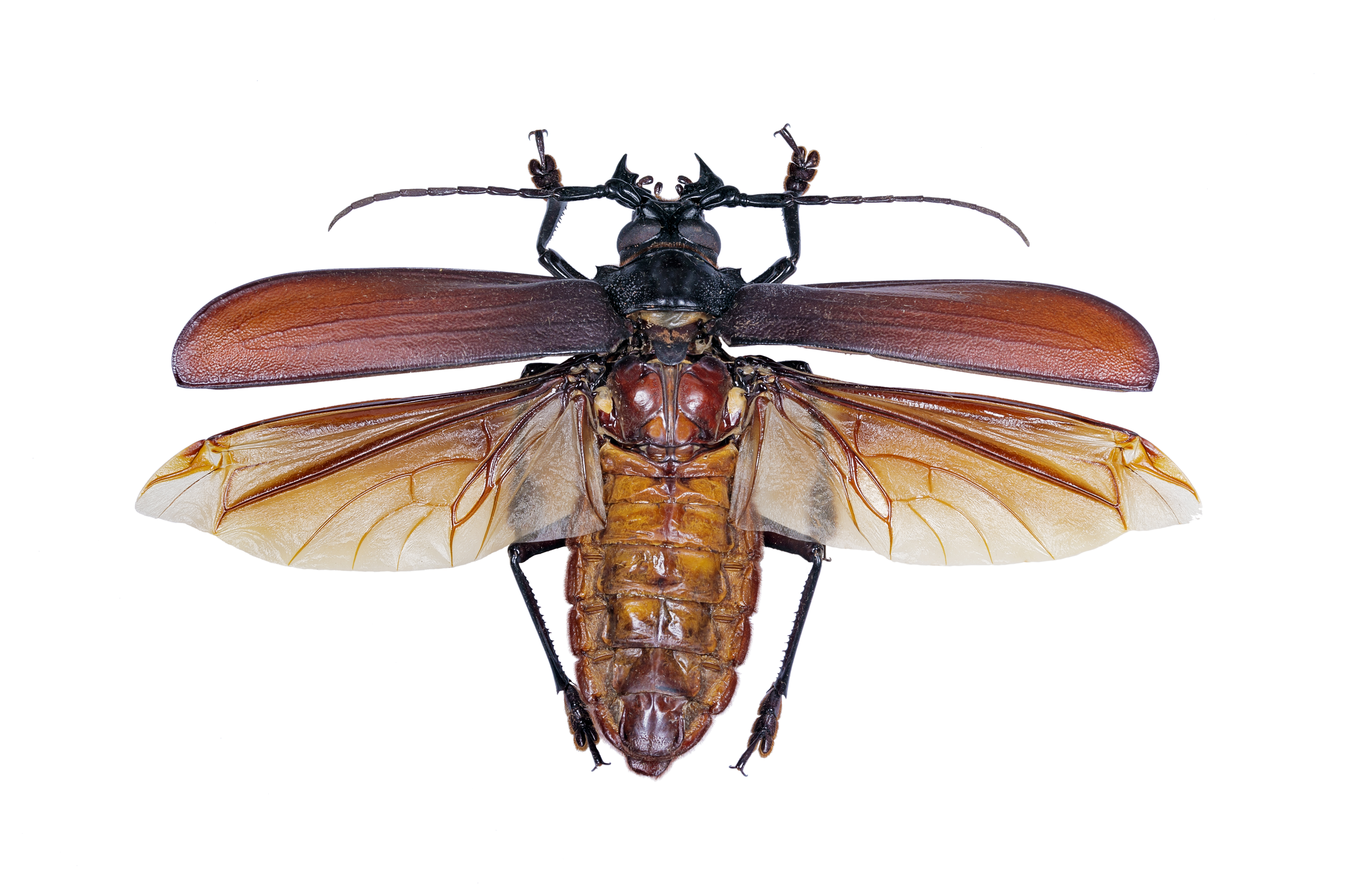 Titan beetle ♂ Locality : “RK4,5 route Cacao”, French Guiana